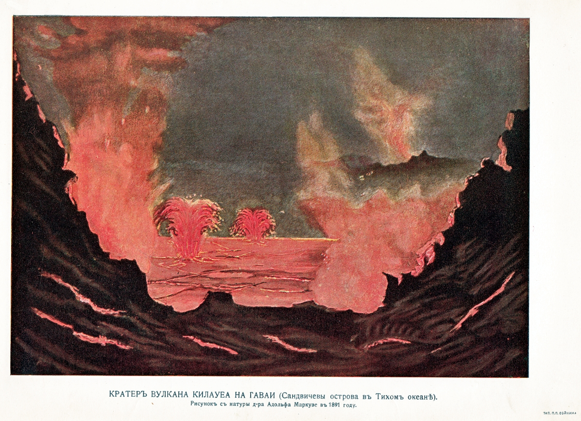 1891 Kilauea eruption. Dr. Adolf Markuze painting. Published in 1916.